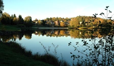 View of the french town of Meuzac, in the Haute-Vienne (Limousin) region, seen from the La Roche Lake.